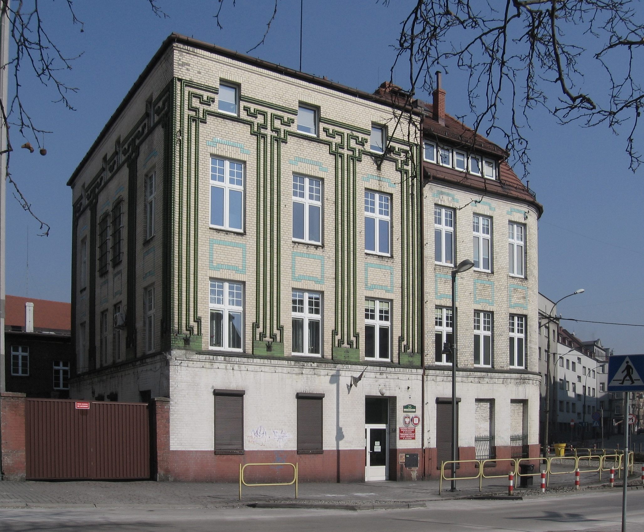 The building of the former Royal Institute of Hygiene, currently the building of the Poviat Sanitary and Epidemiological Station, ul. Moniuszki 25 in Bytom, Poland, older part from 1902–1905.